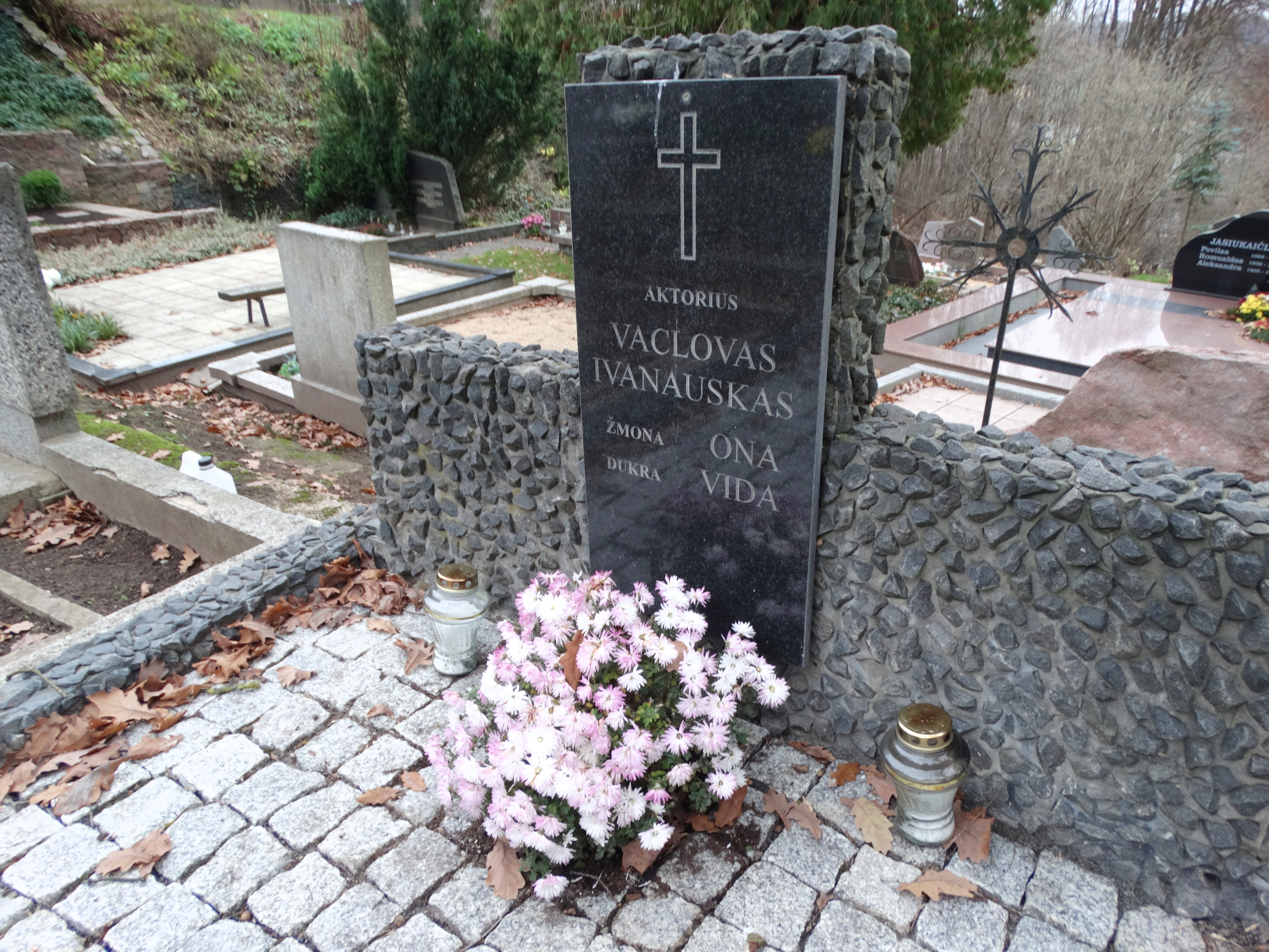 Tomb of Vaclovas Ivanauskas, Eiguliai cemetery, Lithuania